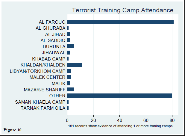 Bar chart of Guantanamo captives alleged attendance at training camps.